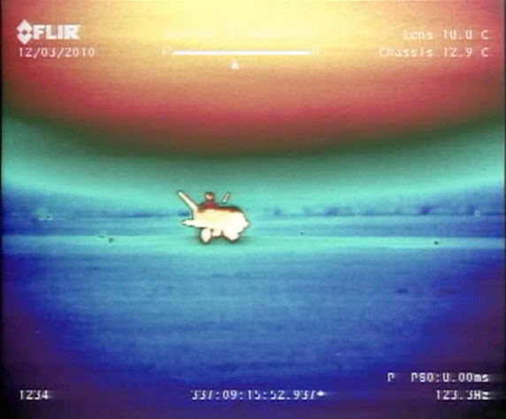 Forward-Looking Infrared Radar (FLIR) view of landing of X-37B Orbital Test Vehicle 1 upon completion of mission USA-212. FLIR images are normally grayscale; this one has false color applied to it to help distinguish temperature differences.